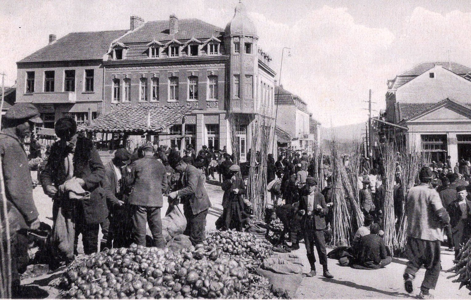 Postcard of Strumica, Hotel "Srpski Kral", 1932 This media file is produced by Wikipedian in Residence in Category:Wikipedian in Residence at DARM in 2016.